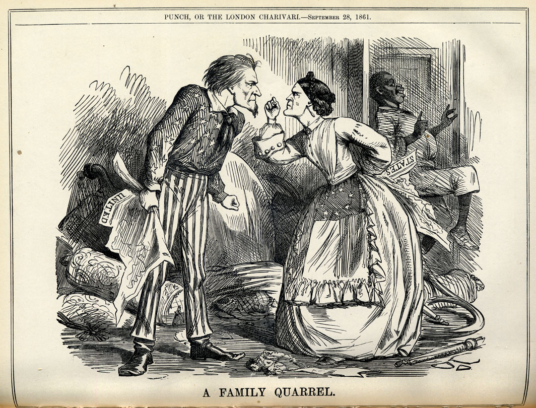 Domestic tragedy